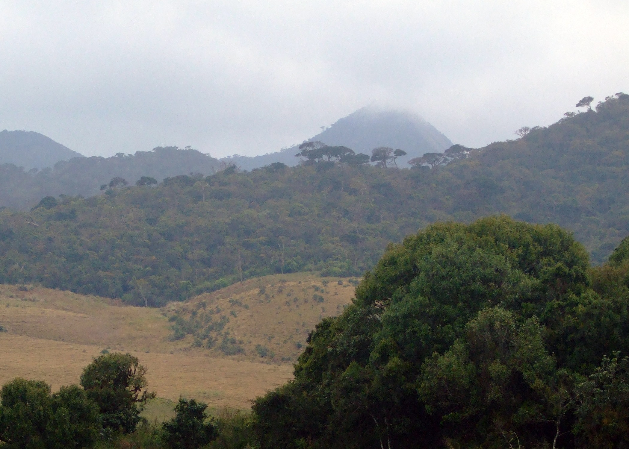 Kirigalpotha, the 2nd tallest mountain in Sri Lanka, at 2388m above sea level.